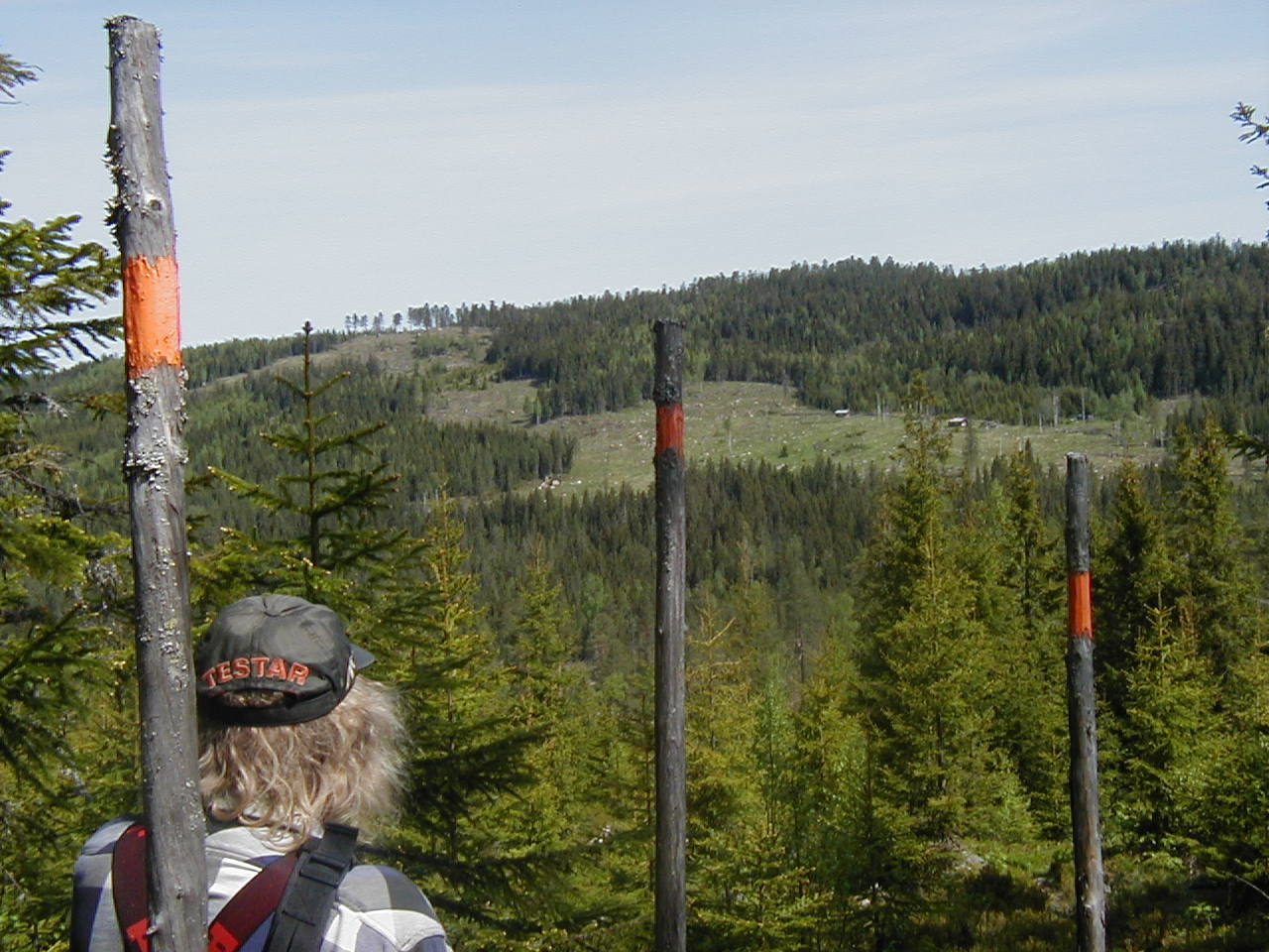 On hiking trail Nordvärmlandsleden toward Ransbysätern